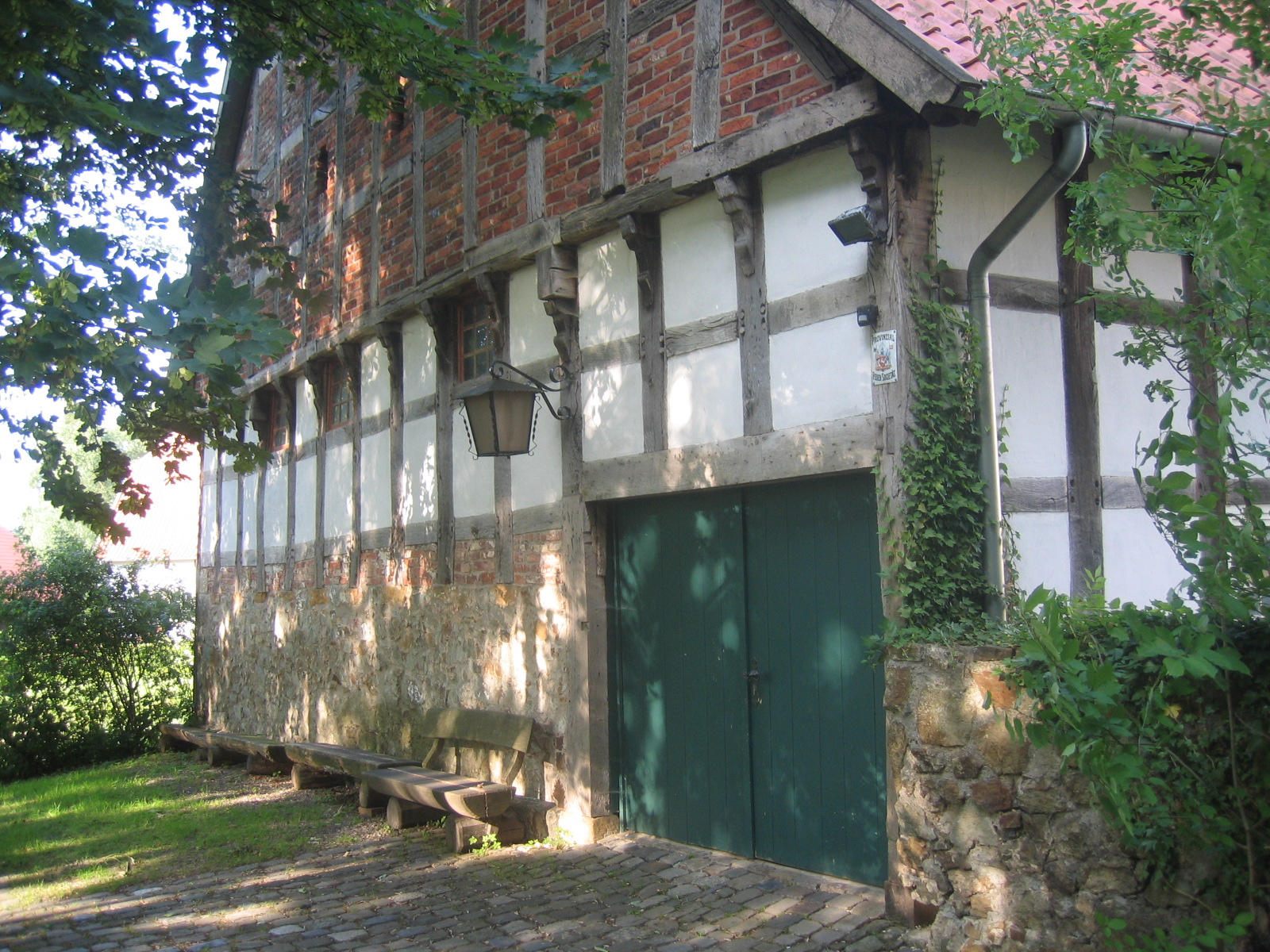 Hiddenhausen Castle in Hiddenhausen, District of Herford, North Rhine-Westphalia, Germany.